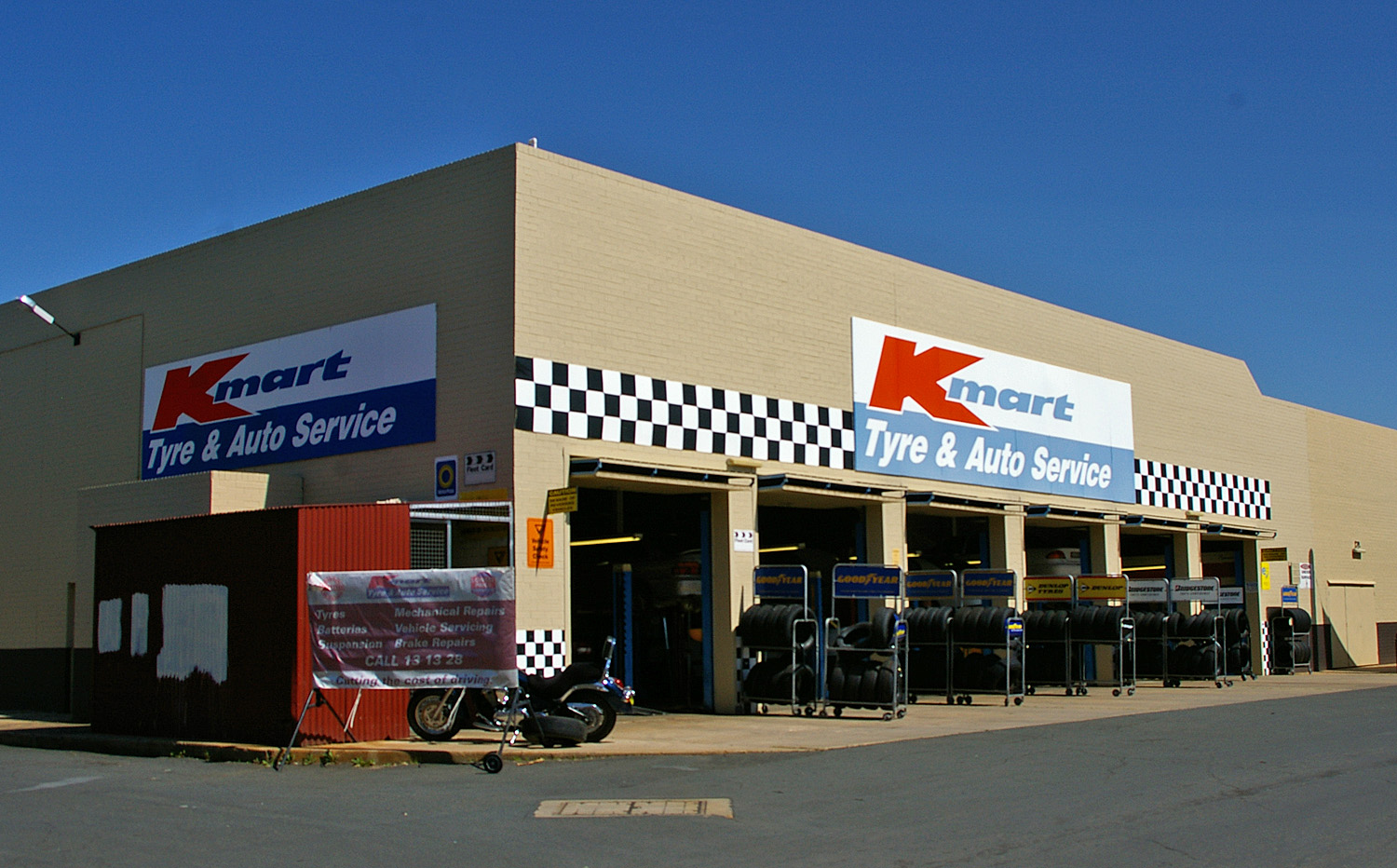 Kmart Tyre and Auto, Wagga Wagga, New South Wales